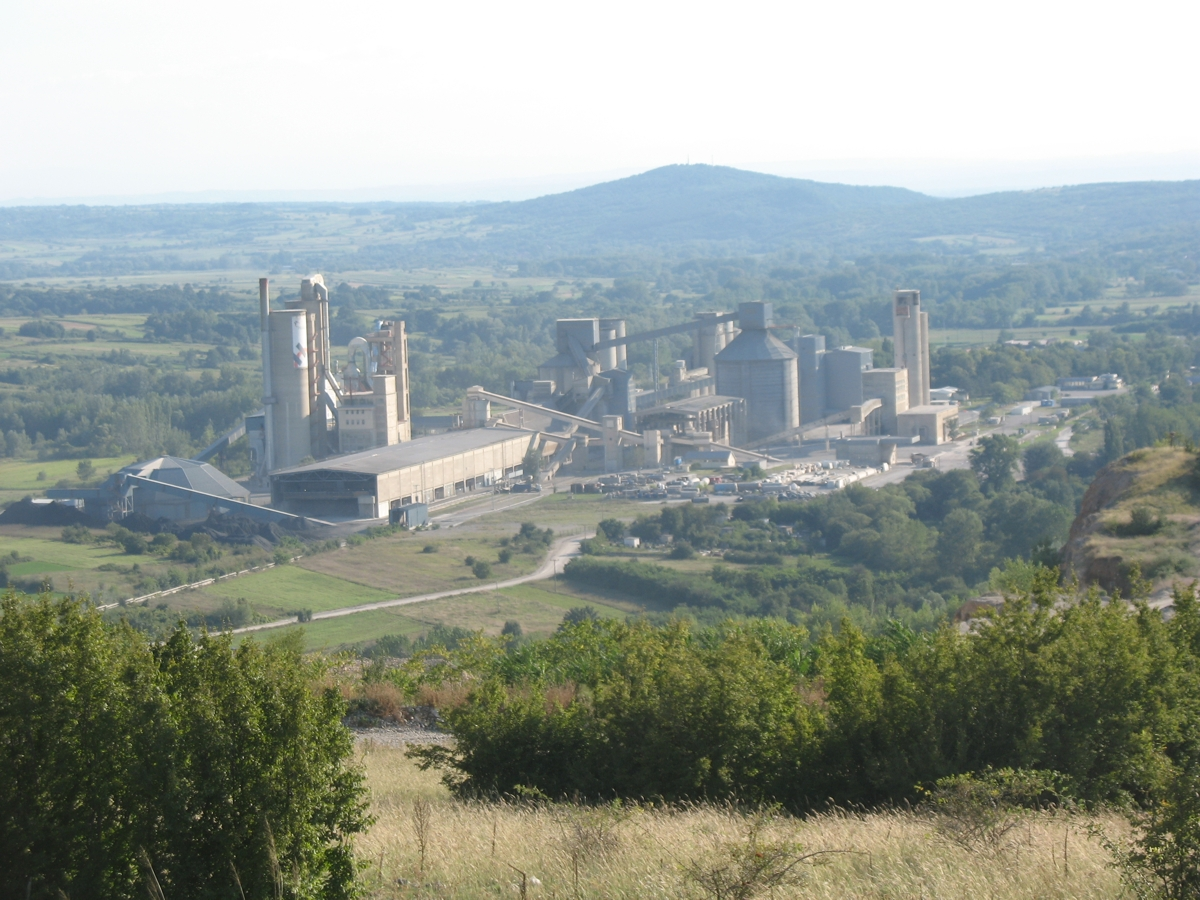 Holcim Cement factory in Popovac,near Paraćin,Serbia.